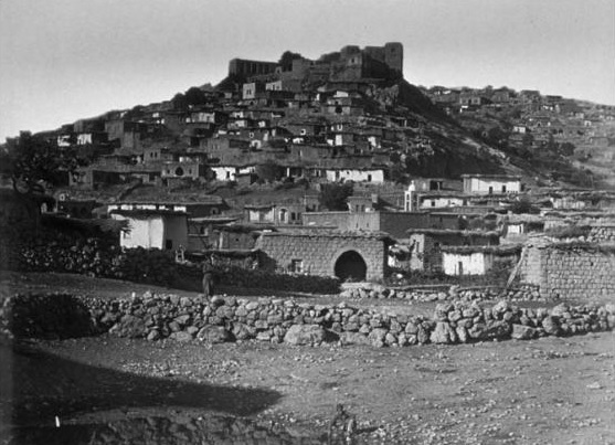 A photograph of Rashaya and its citadel in modern-day Lebanon during the late Ottoman era